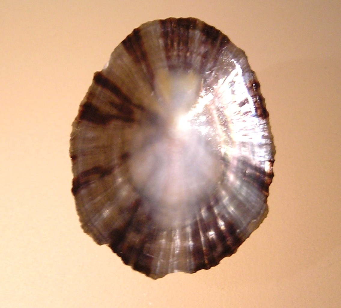 Cellana livescens (Reeve, 1855) (synonym: Hemitoma livescens (Reeve, 1855, family Nacellidae; Mauritius